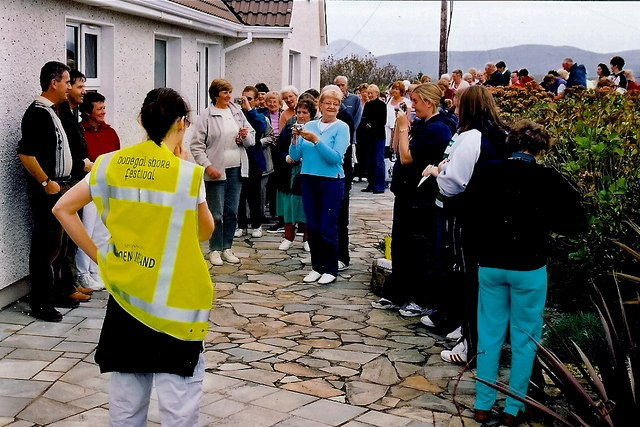 Kincasslagh Peninsula - Julia O'Donnell's home Fans are lined up four-a-breast from the home of Daniel O'Donnell down the road to Iggy's Pub so that they can meet Daniel and have their photo taken with him. I believe that this is done during every Donegal Shore Festival.